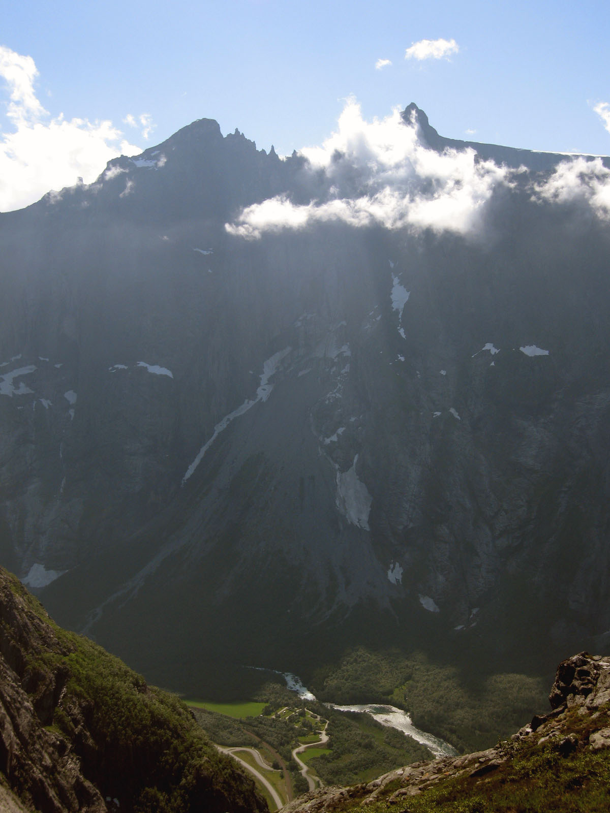 Trolltindene peaks and the north facing Troll Wall, as seen from across the Romsdal valley.